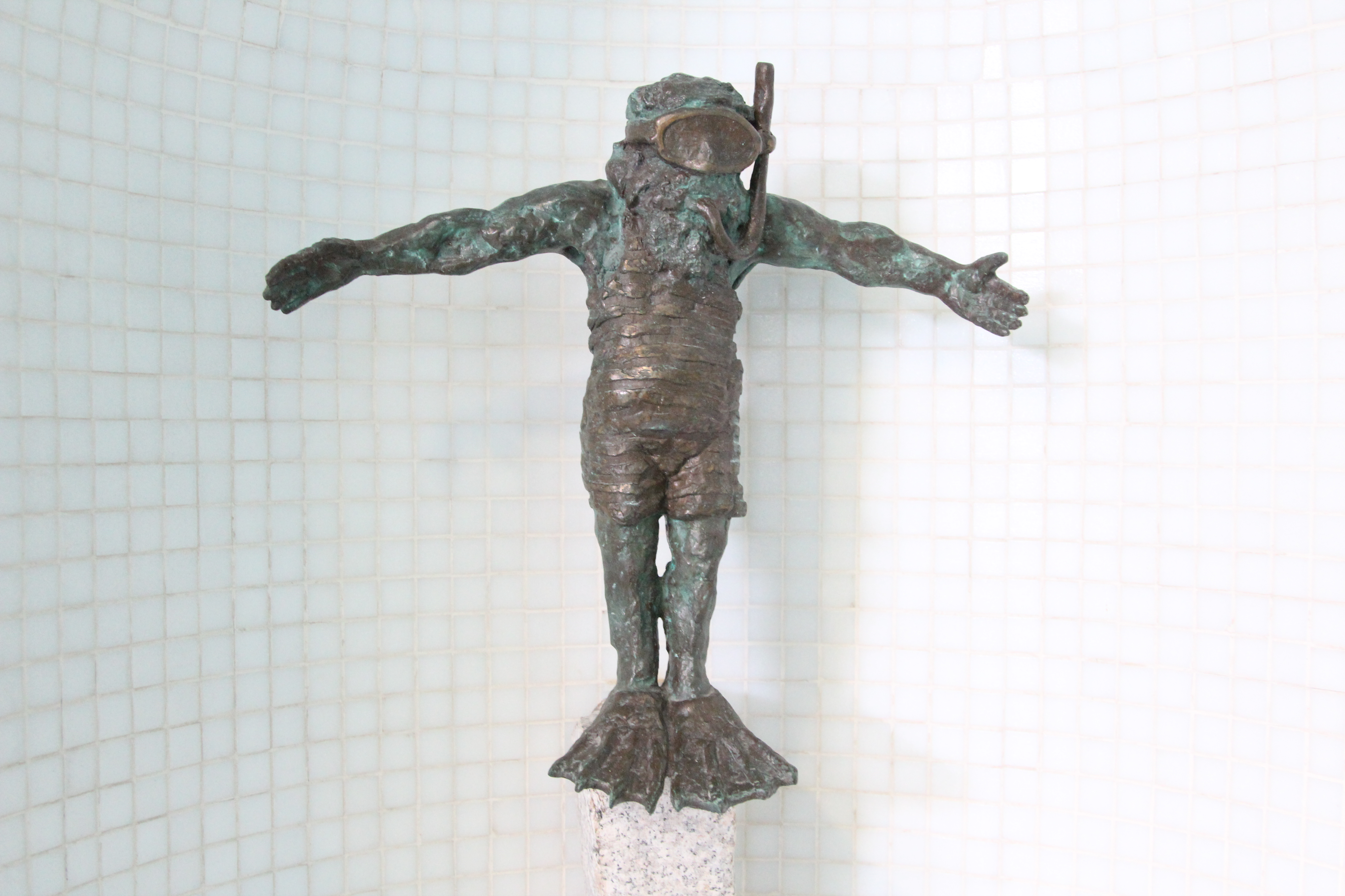 Slopper (Plumplumek) dwarf from Spa Centre on Teatralna 10/12